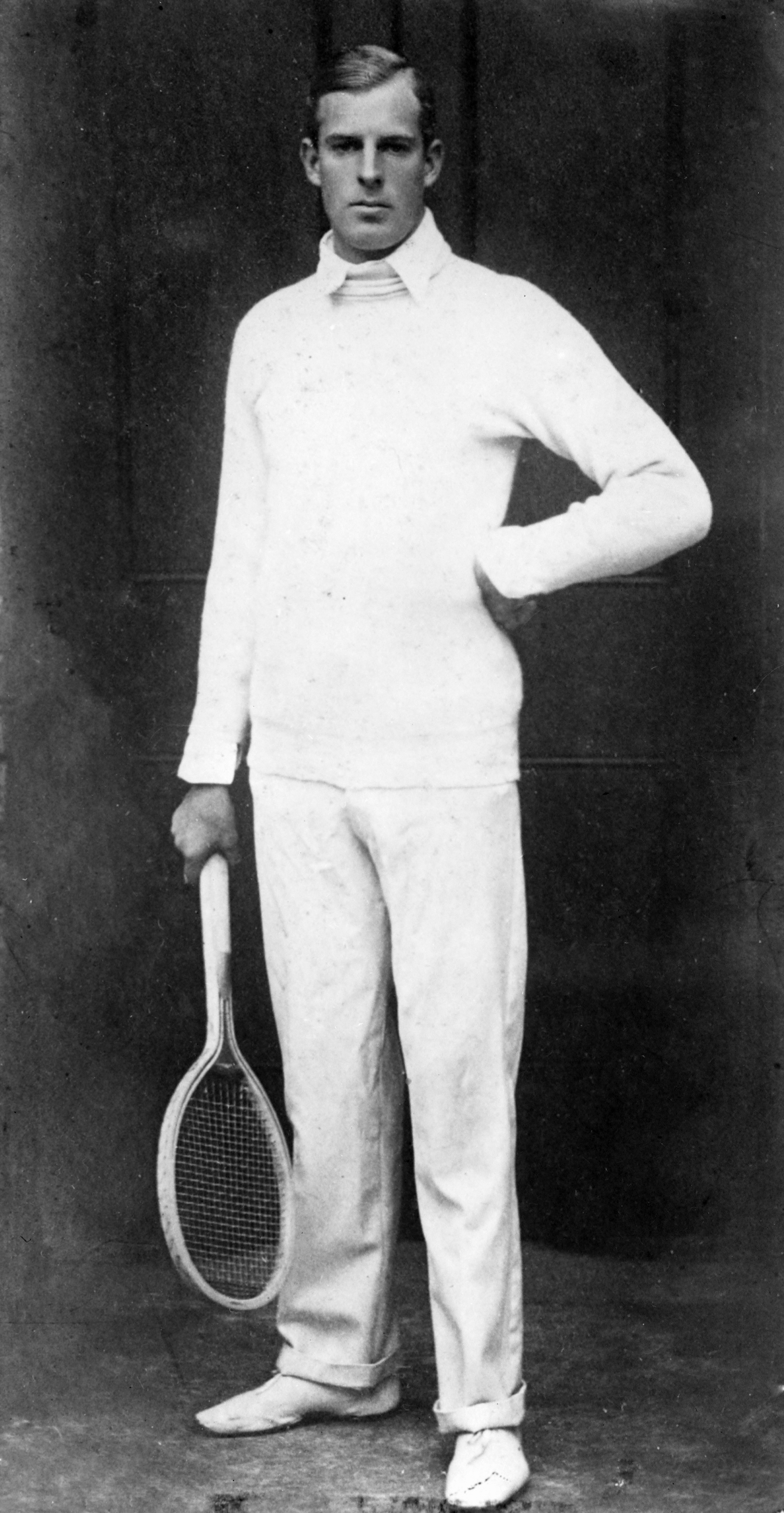 Portrait of tennis champion Anthony Frederick Wilding. He stands in his tennis whites holding his tennis racquet. Taken by an unknown photographer circa 1910.